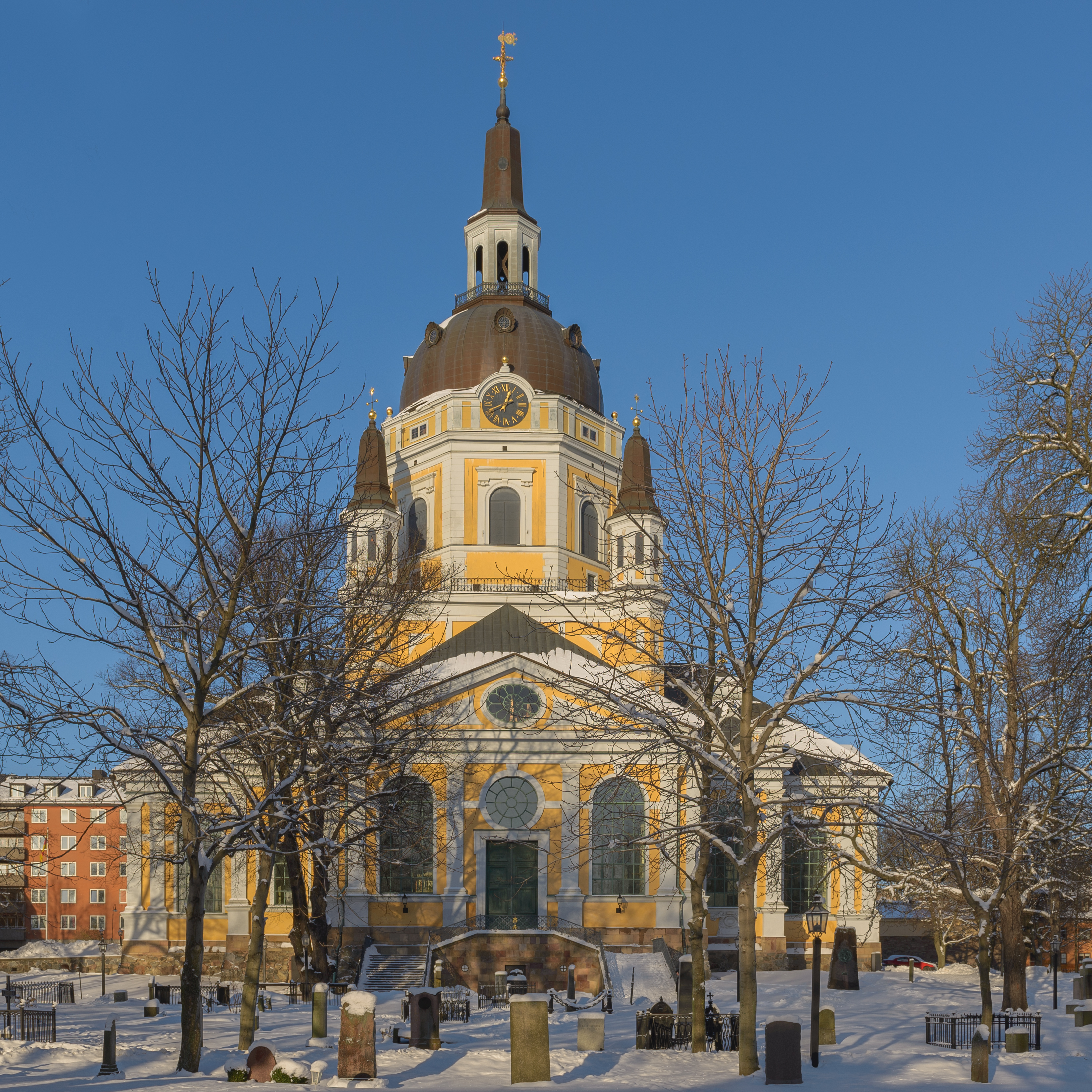 Katarina kyrka (church), Södermalm, Stockholm. Katarina parish, Diocese of Stockholm, Church of Sweden.